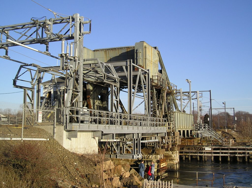 The Niantic River railroad bridge built in 1907 connecting East Lyme and Waterford Connecticut.